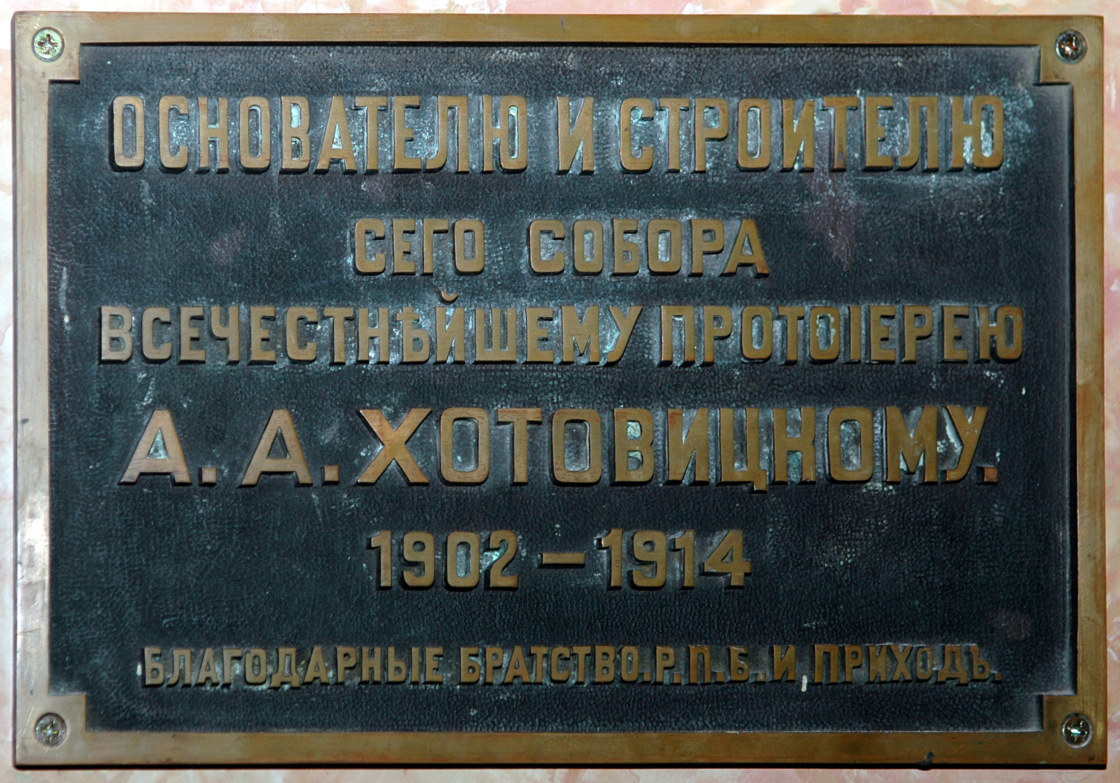 Memorial plaque to Fr. Alexander Hotovitsky in Russian St. Nicholas Cathedral (New York, NY)